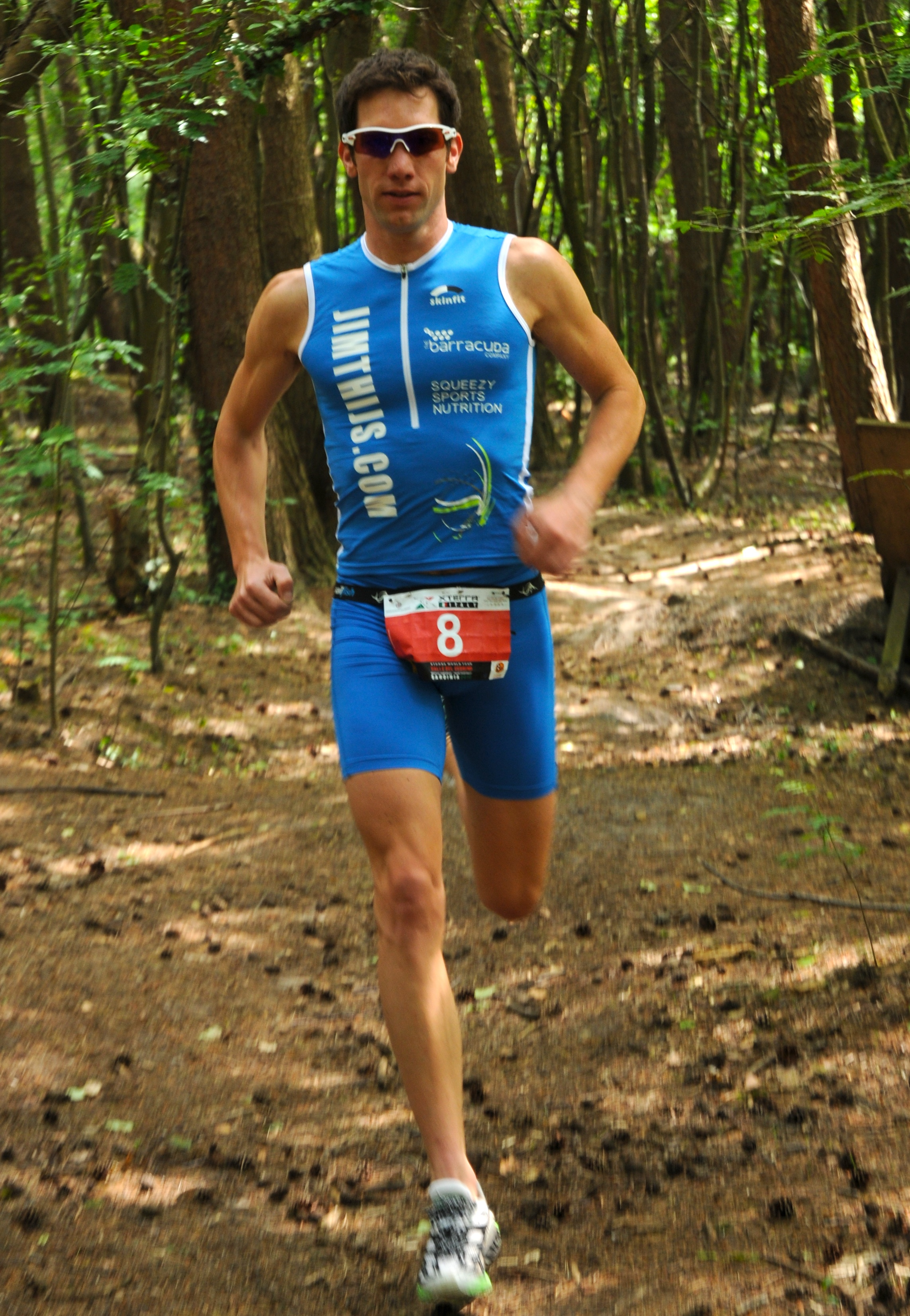 Triathlete Jim Thijs